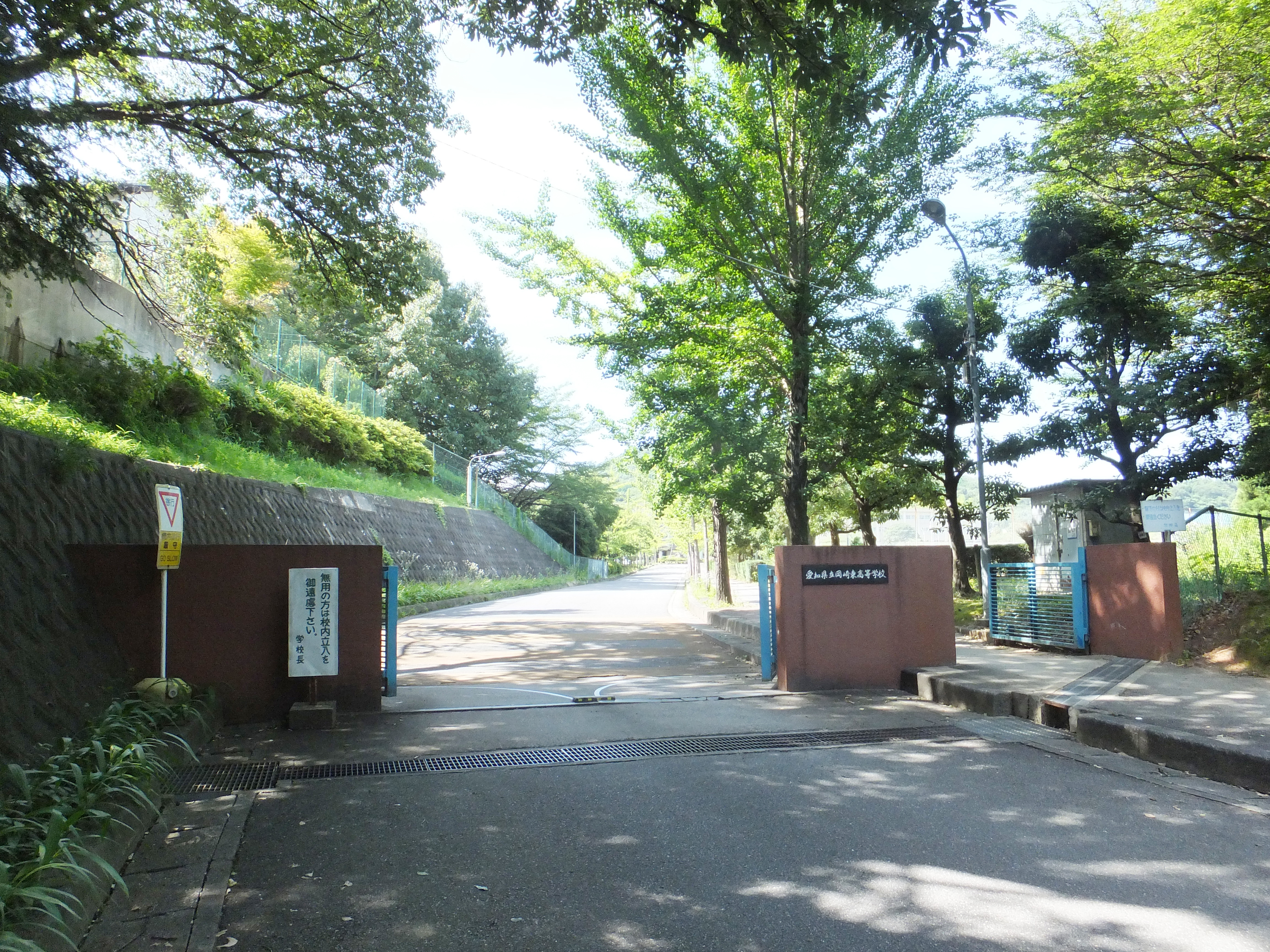 Aichi Prefectural Okazaki Higashi High School (愛知県立岡崎東高等学校), located at 27 Ushiroyama, Ryusenji-cho, Okazaki, Aichi, Japan